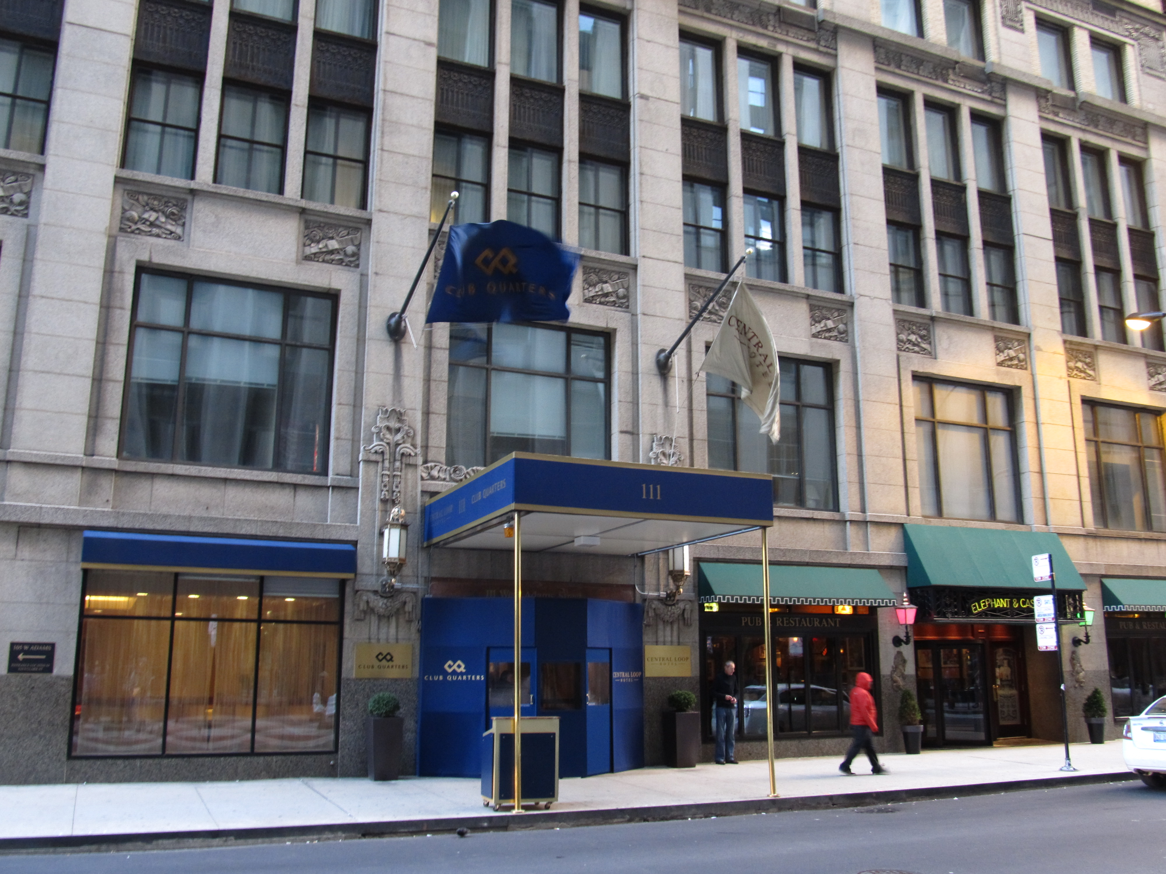 The Loop or Chicago Loop is one of 77 officially designated community areas located in the City of Chicago, Illinois, United States. It is the historic commercial center of Downtown Chicago. It is the seat of government for Chicago and Cook County, as well as the historic theater and shopping district (including State Street). As established in social research done by the University of Chicago in the 1920s, the Loop is a defined community area of Chicago. Chicago's central business district community area is bounded on the west and north by the Chicago River, on the east by Lake Michigan, and on the south by Roosevelt Road, although the commercial core has expanded into adjacent community areas. The community area includes Grant Park and one of the largest art museums in the United States, the Art Institute of Chicago. Other major cultural institutions that call this area home include the Chicago Symphony Orchestra, the Lyric Opera of Chicago, the Goodman Theatre, the Joffrey Ballet, the central public Harold Washington Library, and the Chicago Cultural Center. In what is now the Loop Community Area, on the southern banks of the Chicago River, near today's Michigan Avenue Bridge, the U.S. Army erected Fort Dearborn in 1803. It was the first settlement in the area sponsored by the United States.